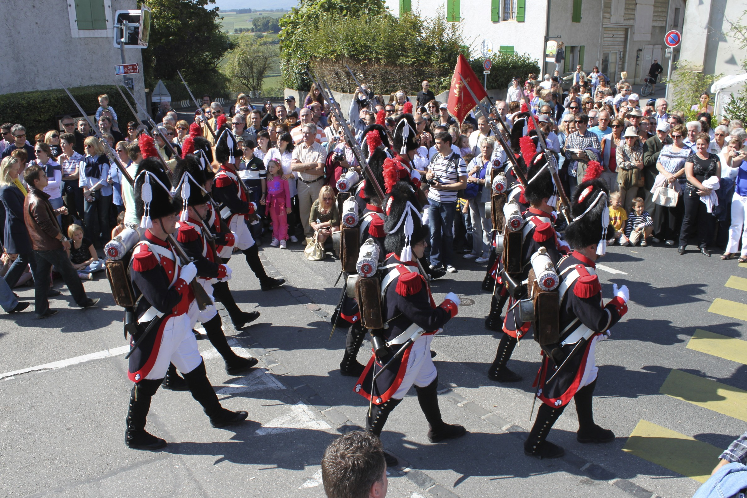 Russin grape harvest festival, Russin, GE, Switzerland